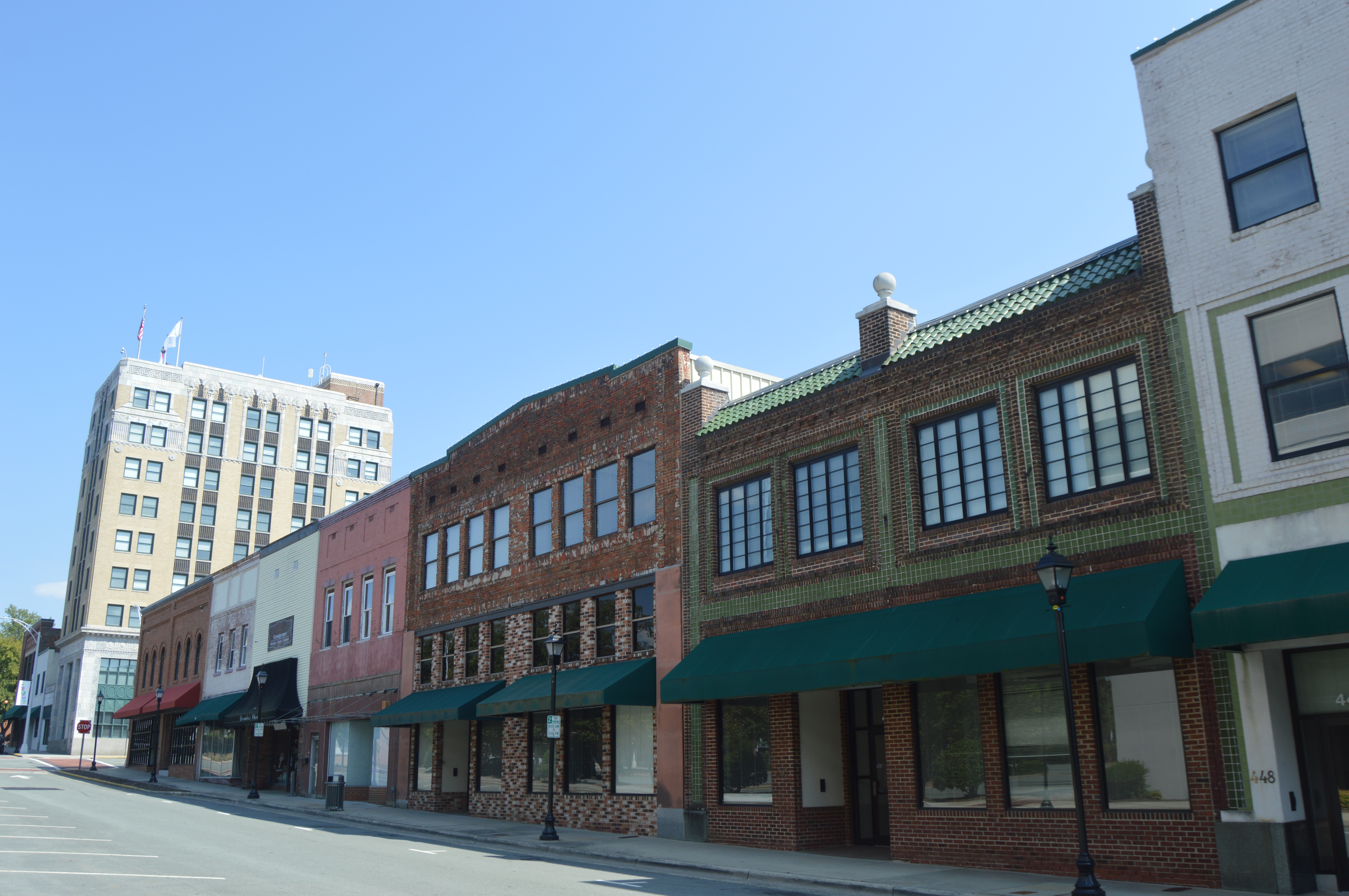 Buildings on the southeastern side of Main Street, between the Davis and Maple intersections, in central Burlington, North Carolina, United States. This block is part of the Downtown Burlington Historic District, a historic district that is listed on the National Register of Historic Places. The Atlantic Bank and Trust Company Building is visible in the distance at left.